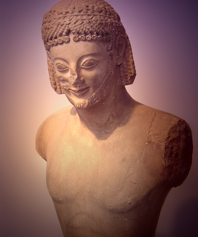 Upper part of an equestrian Kouros, Acropolis Museum, Athens.